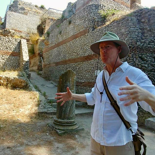 This is Steven L Tuck at an archeological site somewhere near Rome, Italy